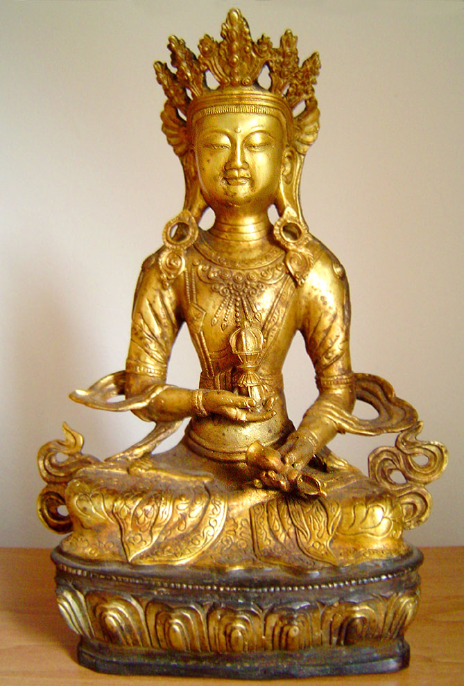 Vajrasattva statue, Tibet (ca. 25 cm, gilded)